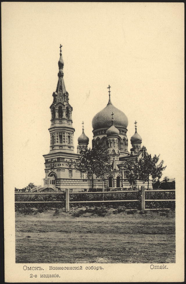 Voznesenskii sobor in Omsk on a 1905 postcard